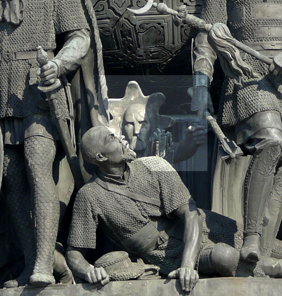 Veles (god) on the Monument "Millennuim of Russia" in Veliky Novgorod